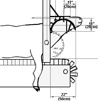 Simplified drawing of Grandin head-holding device for kosher slaughter, side view. URL: Released into the public domain by the author: "This headholding device is in the public domain and can NOT be patented. Diagrams are published in T. Grandin 1993, Livestock Handling and Transport, CABI Publishing, p. 306. This was done to make this device readily available and to improve animal welfare."